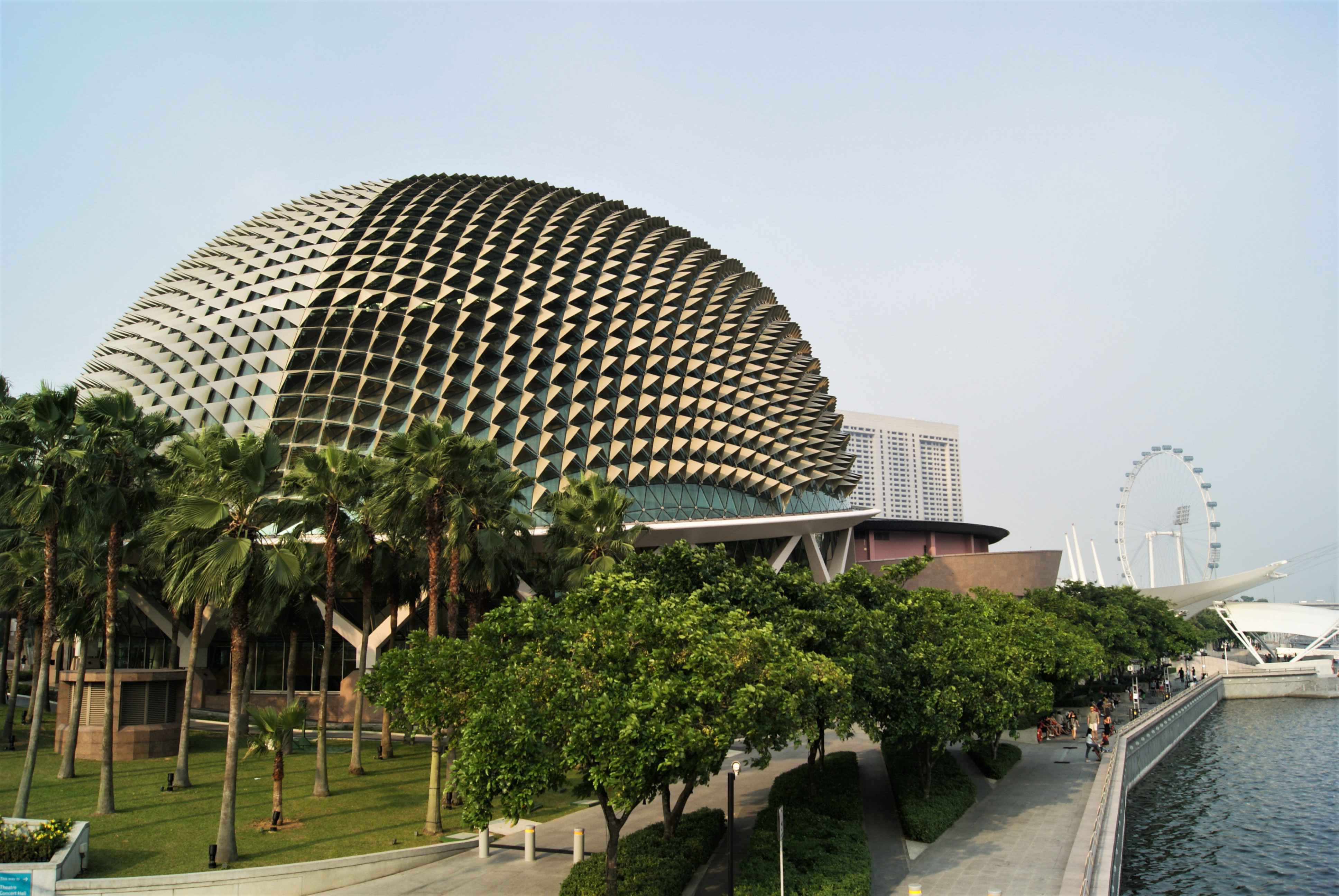 Esplanade (Concert Hall building) in Singapore, view from the Esplanade Bridge, September 2009